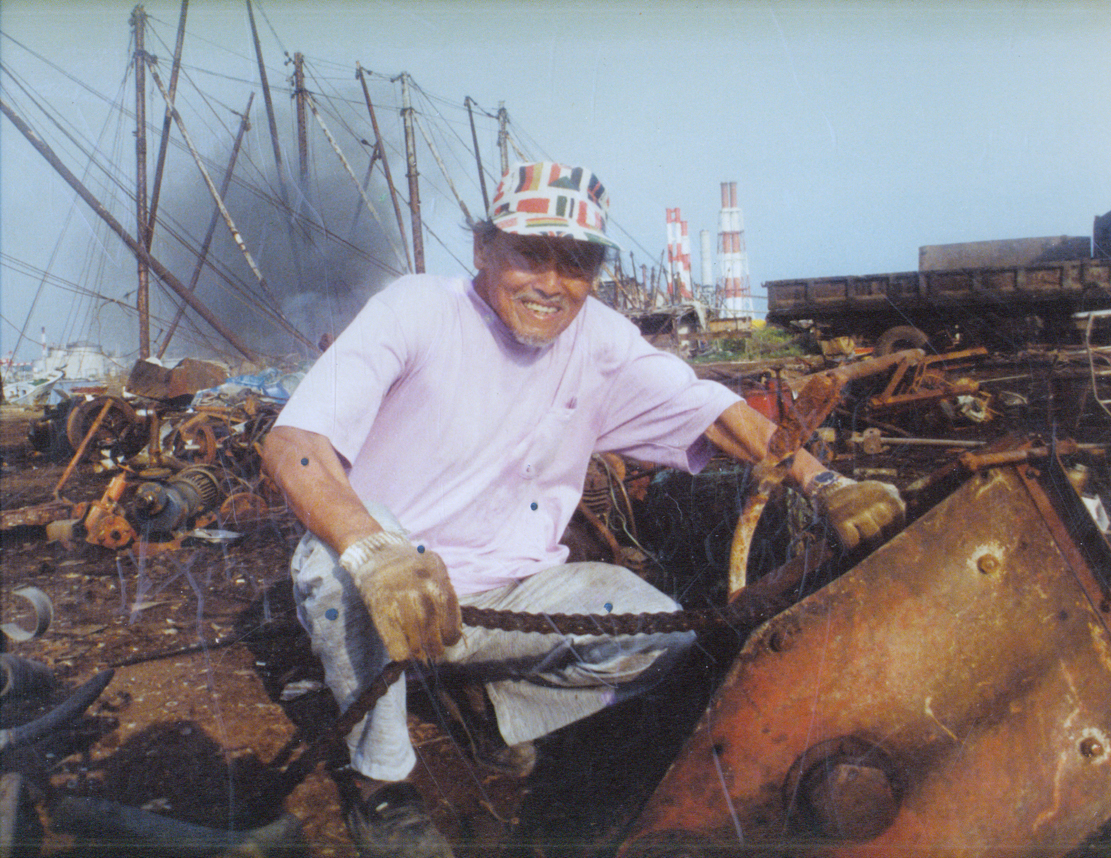 Chen Ting-Shih go Kaohsiung shipbreaking plant to find scrap iron to create his artwork.